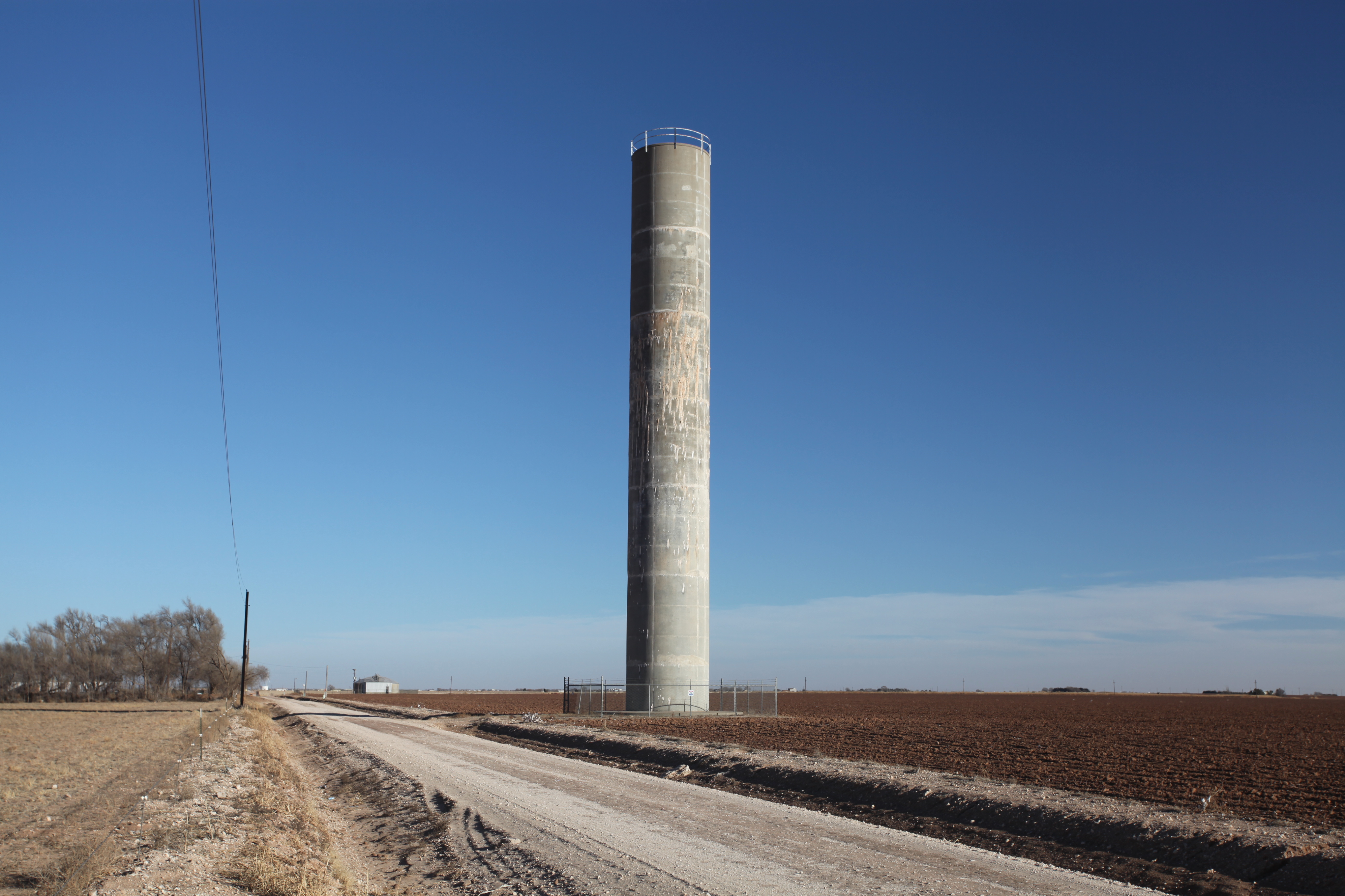 Standpipe water tower that holds water pumped from the Canadian River reservoir named Lake Meredith to Smyer, Texas.